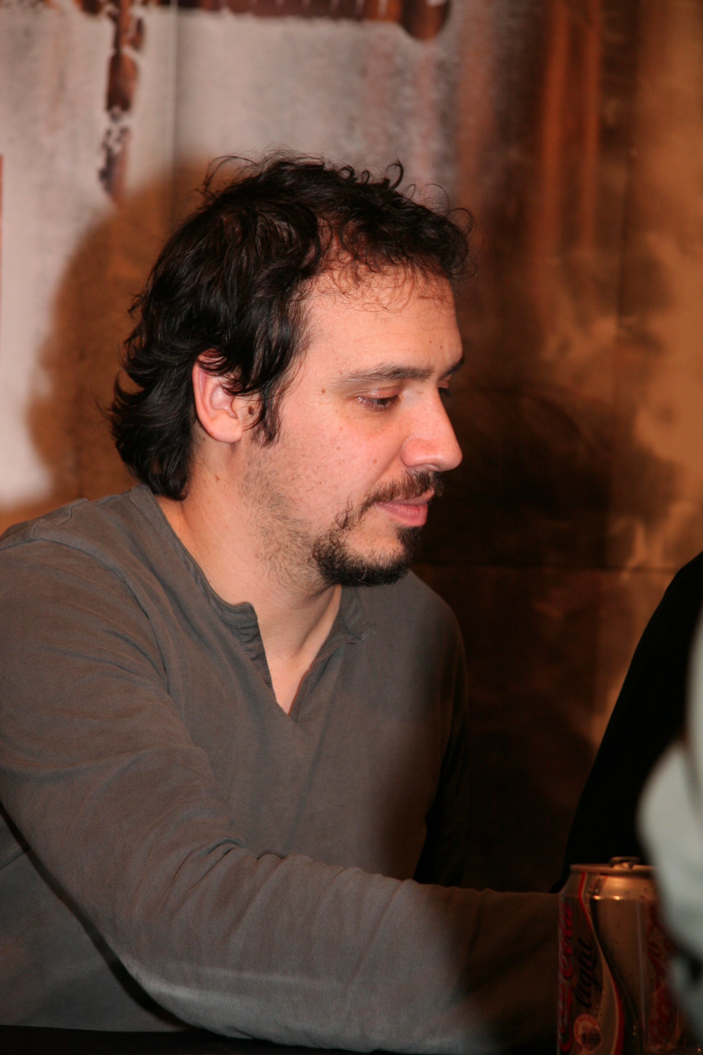 Rendezvous with the actors of the television serie Kaamelott at Fnac Saint-Lazare (Paris, France).